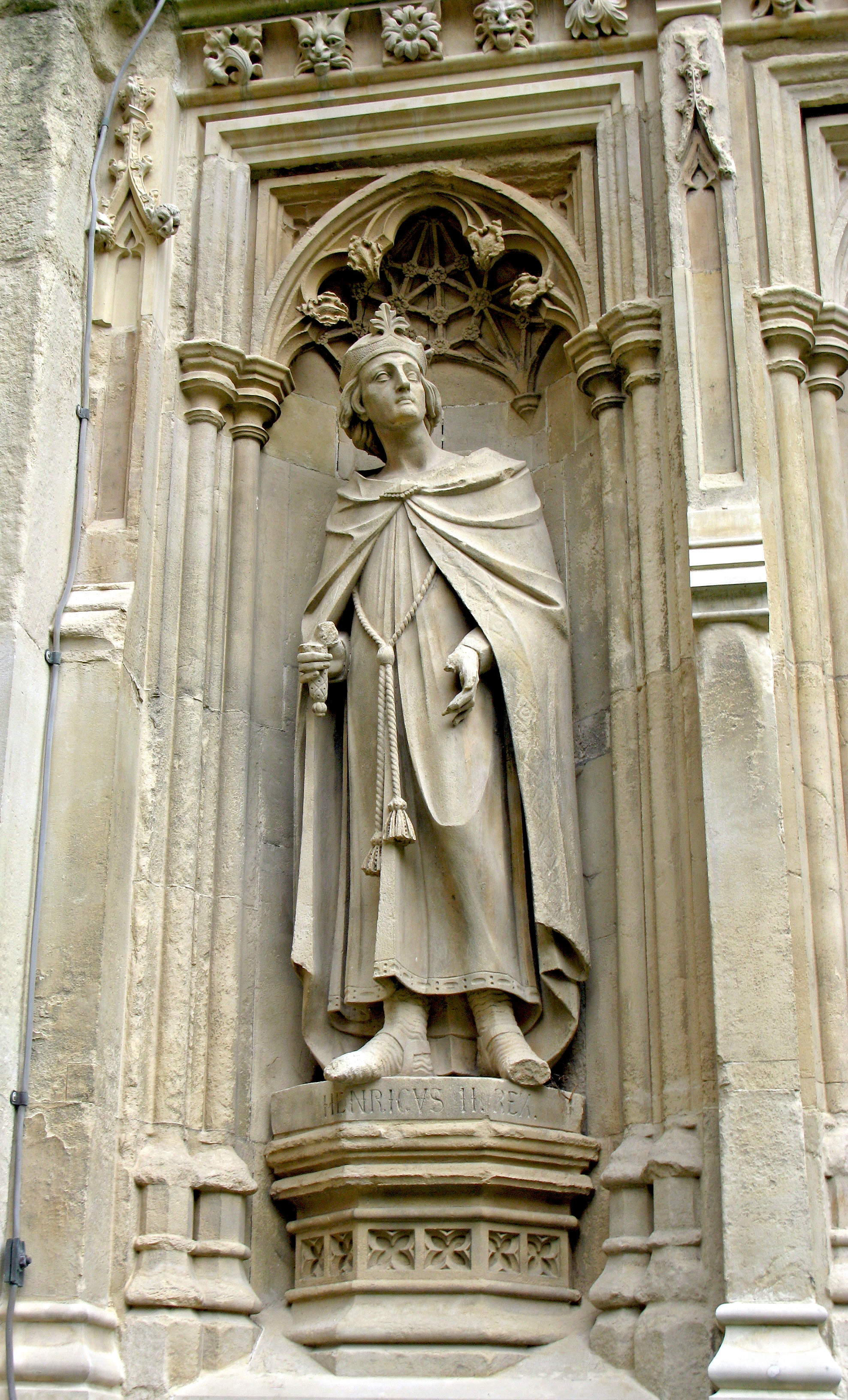 Sculpture of Henry II of England on Canterbury Cathedral in Canterbury, England.